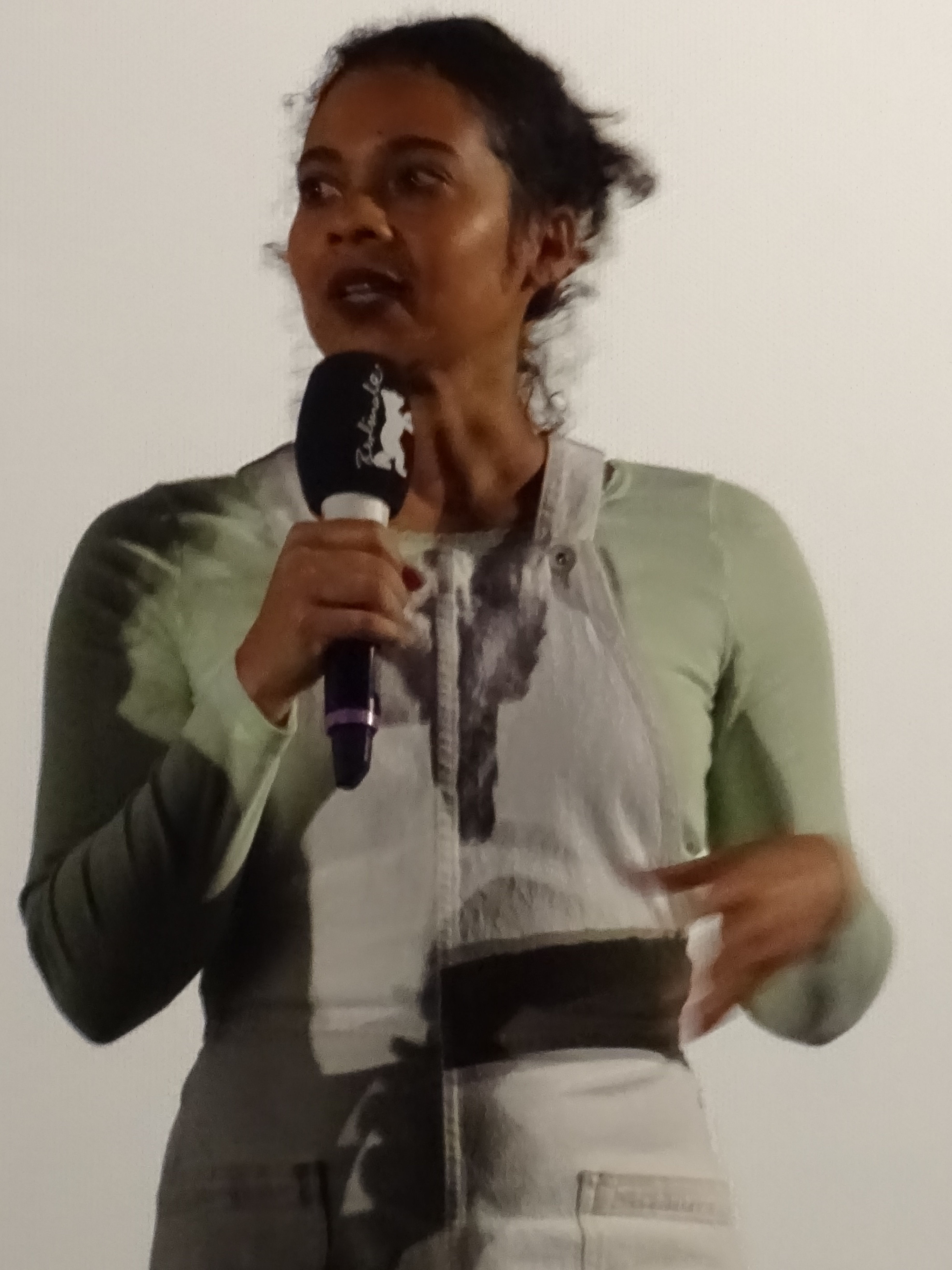 Keisha Rae Witherspoon, Jamaican-US-American film director, at a Q&A at Berlinale 2020, Berlin, February 2020